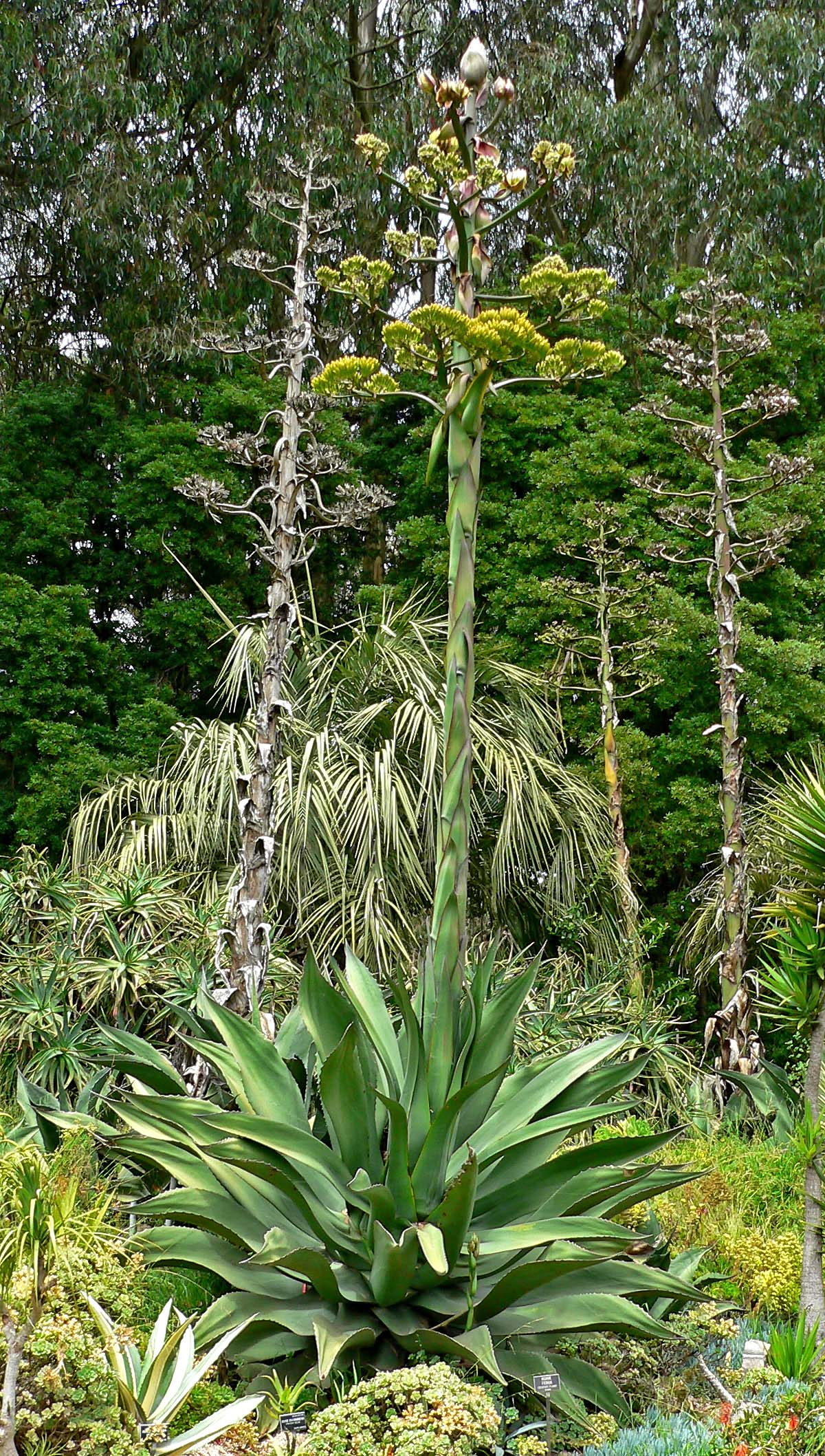 Photo of Agave ferox at the San Francisco Botanical Garden